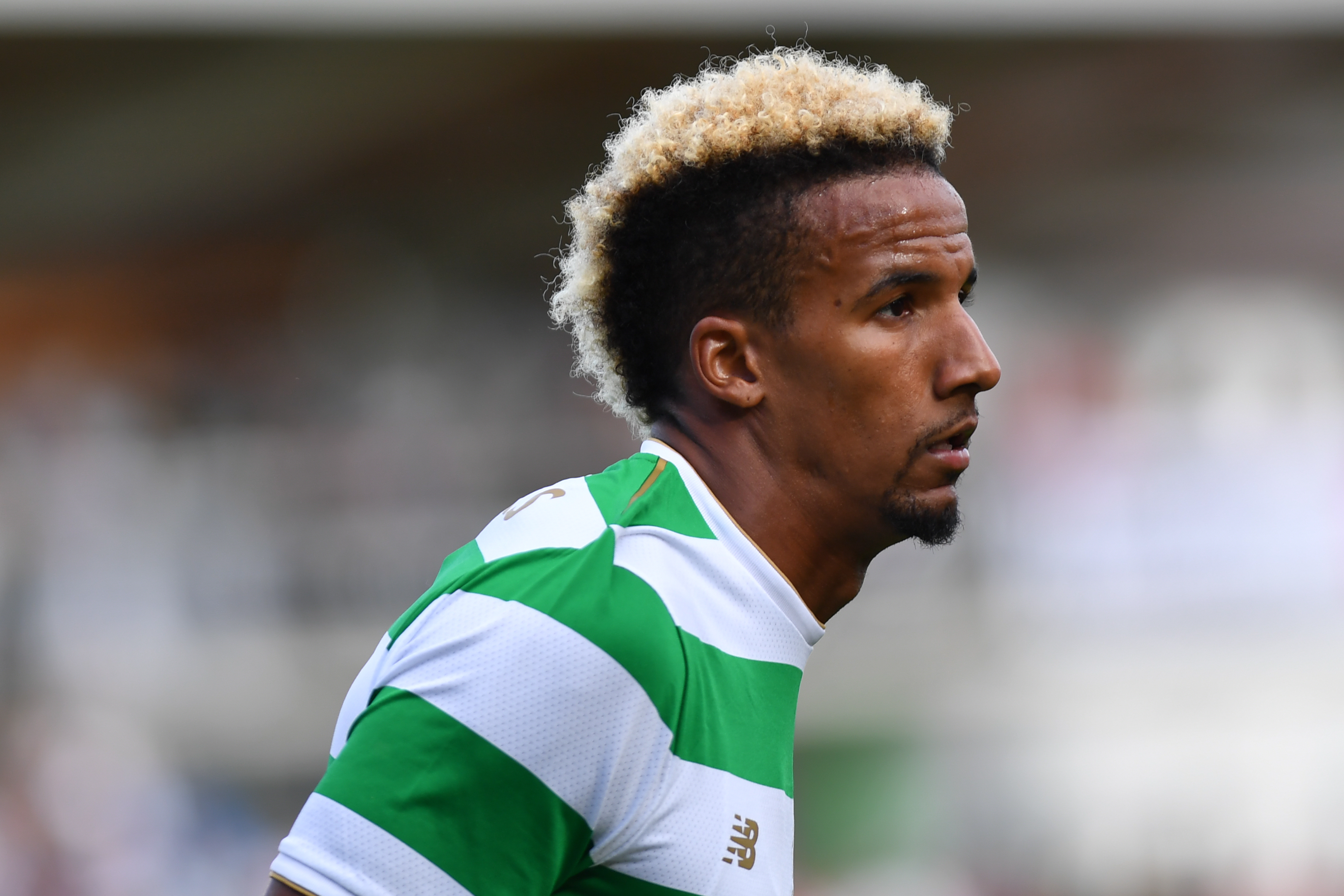 1/7/2017, Amstetten, Austria, sports, soccer, Tipico Fussball Bundesliga - preparation match SK Rapid Wien vs Celtic Glasgow. Image shows Scott Sinclair (Celtic FC).